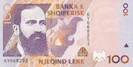 Albanian bill: 100 Lek with the pic of Fan Noli